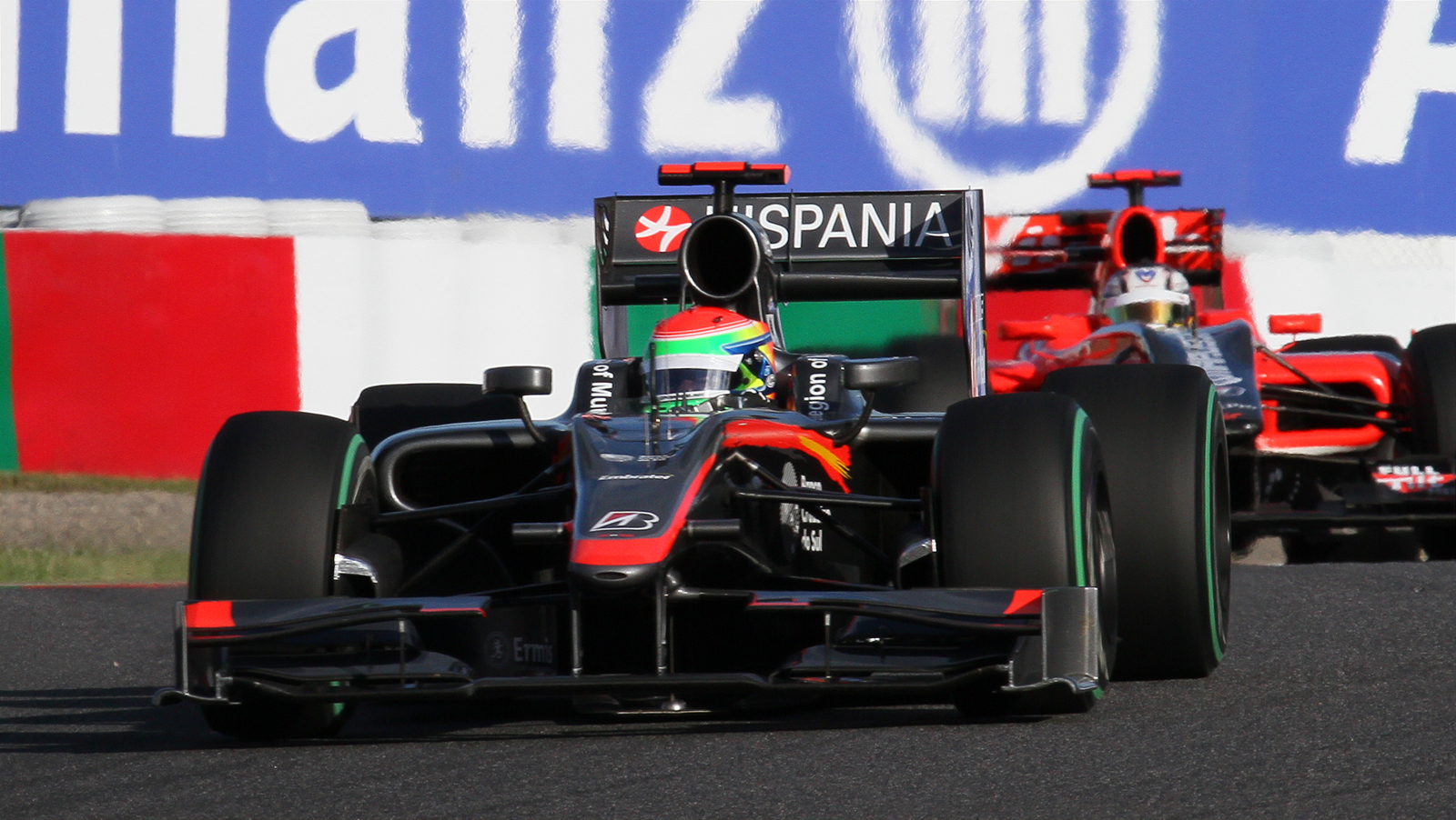 Formula One 2010 Rd.16 Japanese GP: Sakon Yamamoto (Hispania Racing) during the race.